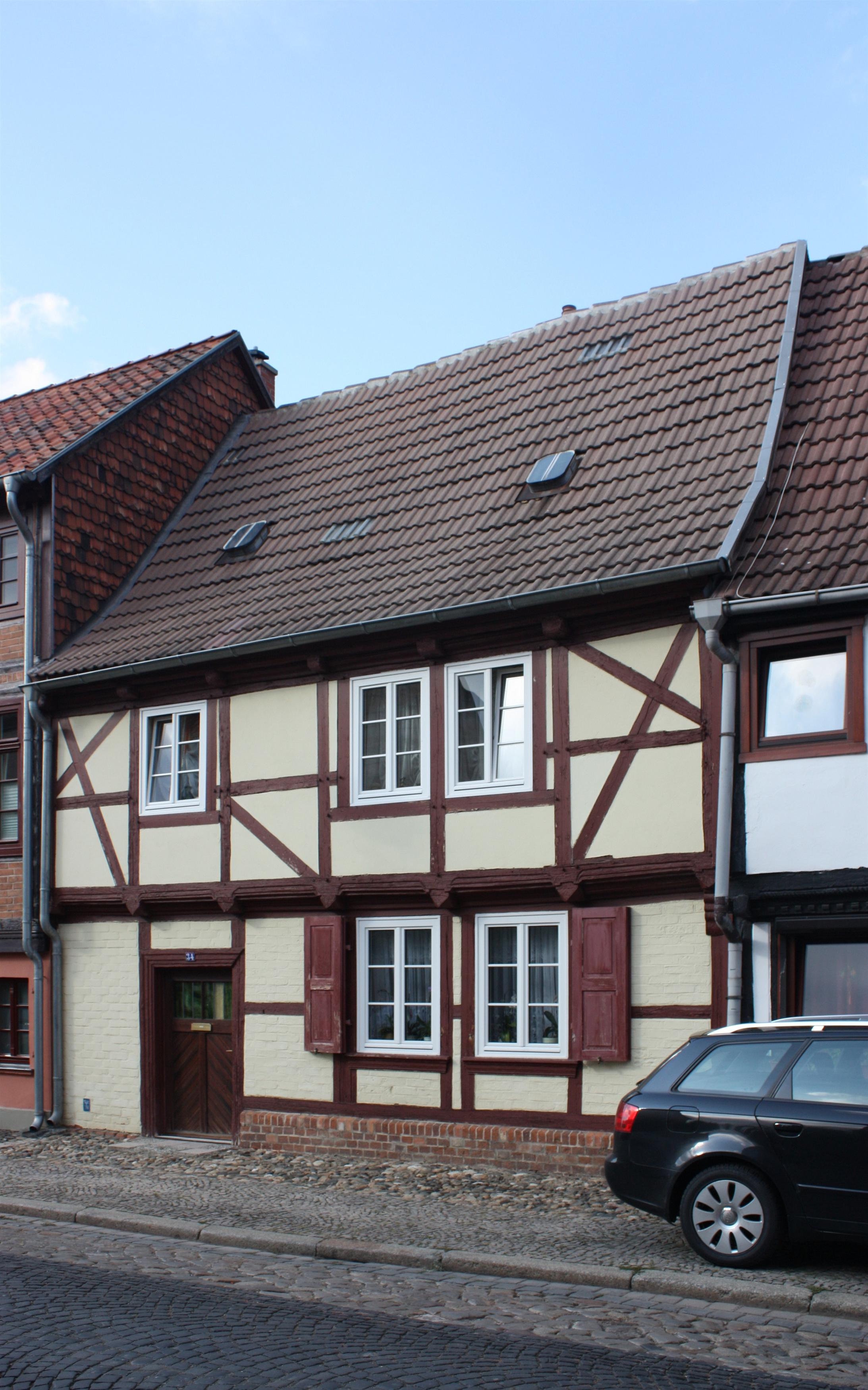 This is a photograph of an architectural monument.It is on the list of cultural monuments of Quedlinburg Augustinern 34 in Quedlinburg